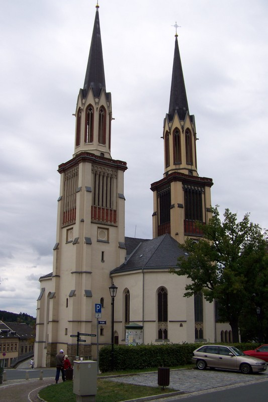 Oelsnitz (Vogtland), Saxony, Germany: St. Jacob church.